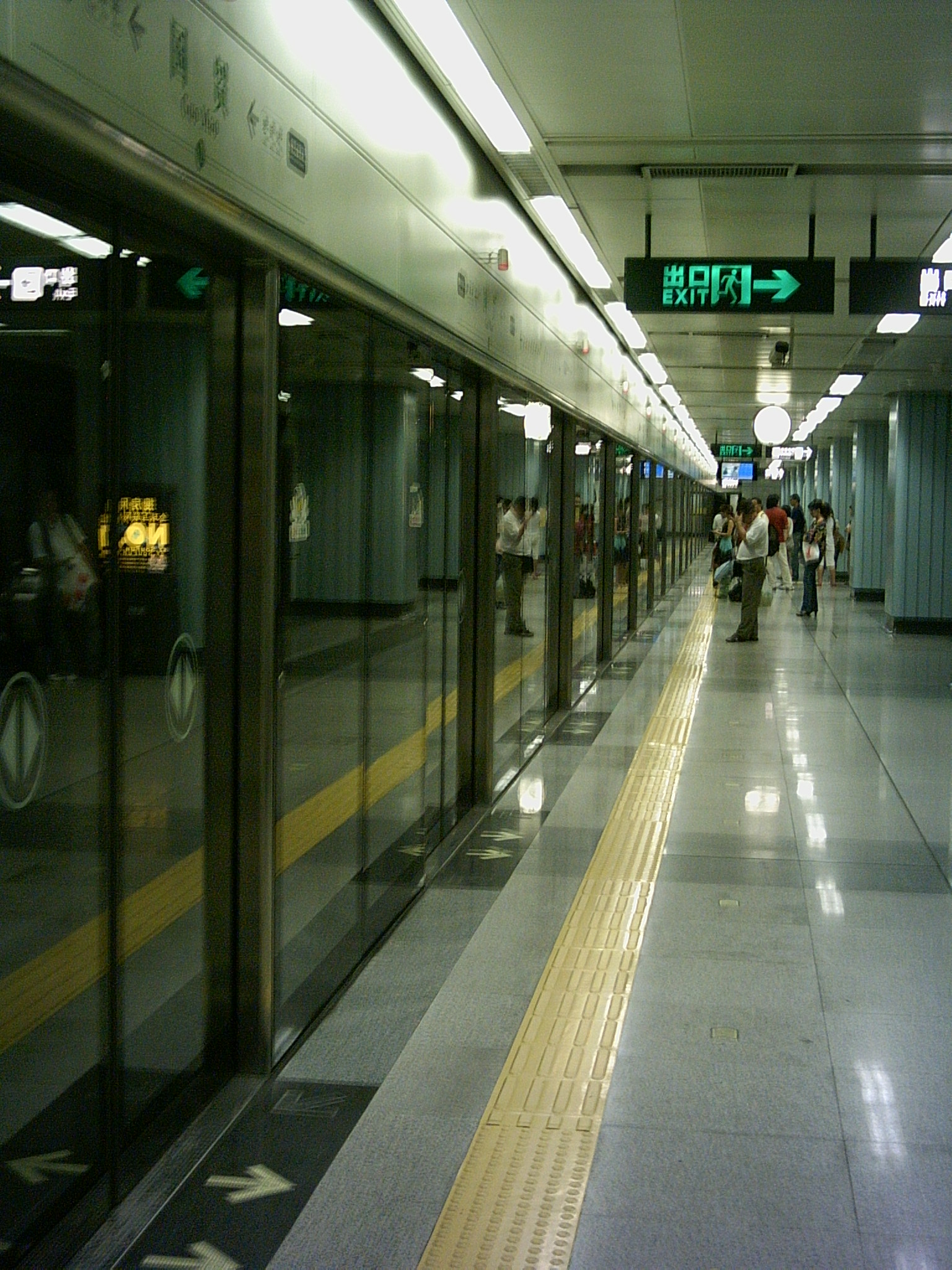 Guo Mao Station platform, part of the Shenzhen Metro in Shenzhen. Taken by myself in July, 2006.